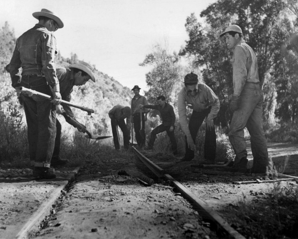 Photo of Rio Grande Southern workers repairing the narrow gauge tracks formerly used by the line's Galloping Goose railcars. While the line was abandoned the year before, the crews made necessary repairs to allow salvage equipment to access the area and remove the rails.